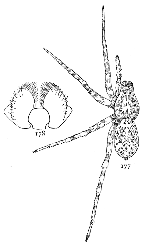 Lycosa cinerea.—177, female enlarged four times. 178, maxillæ.